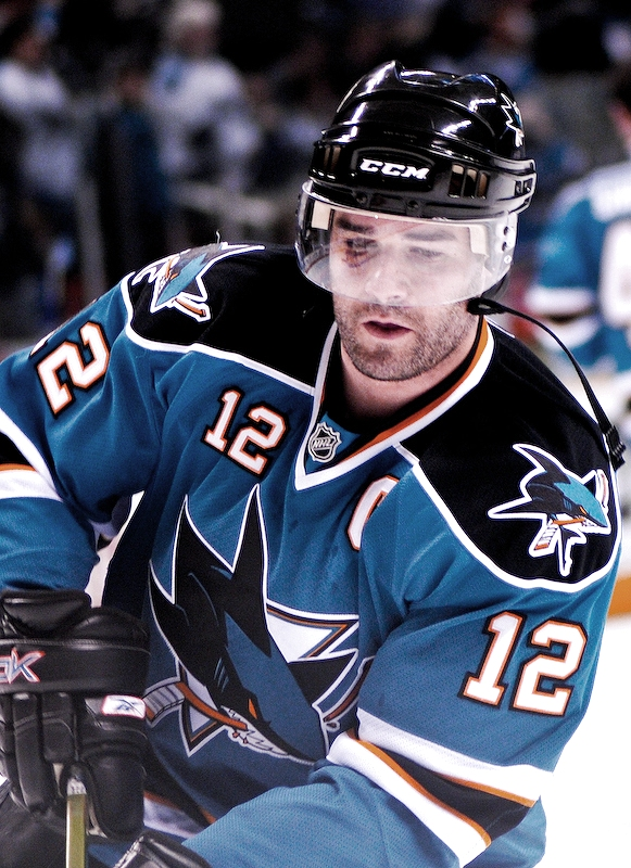 Patrick Marleau